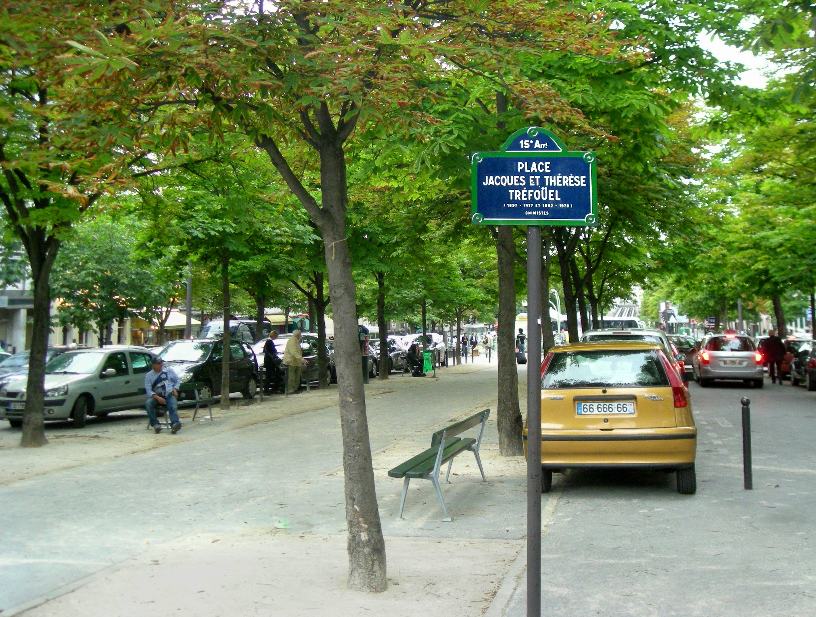 View of Place Jacques-et-Thérèse-Tréfouël, in Paris.